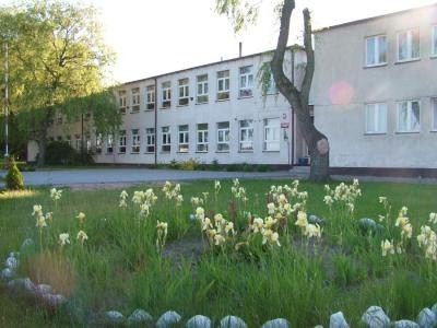 Publiczne Gimnazjum in Jastrzebie, Poland